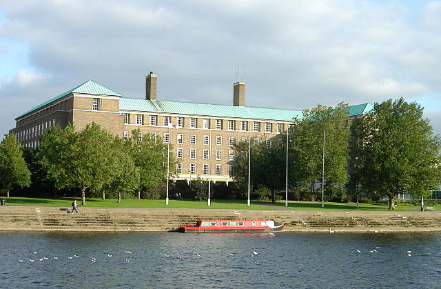 County Hall, West Bridgford Not the most inspired piece of municipal architecture. Pevsner says: "Started in 1937 and then as now as dead as mutton."